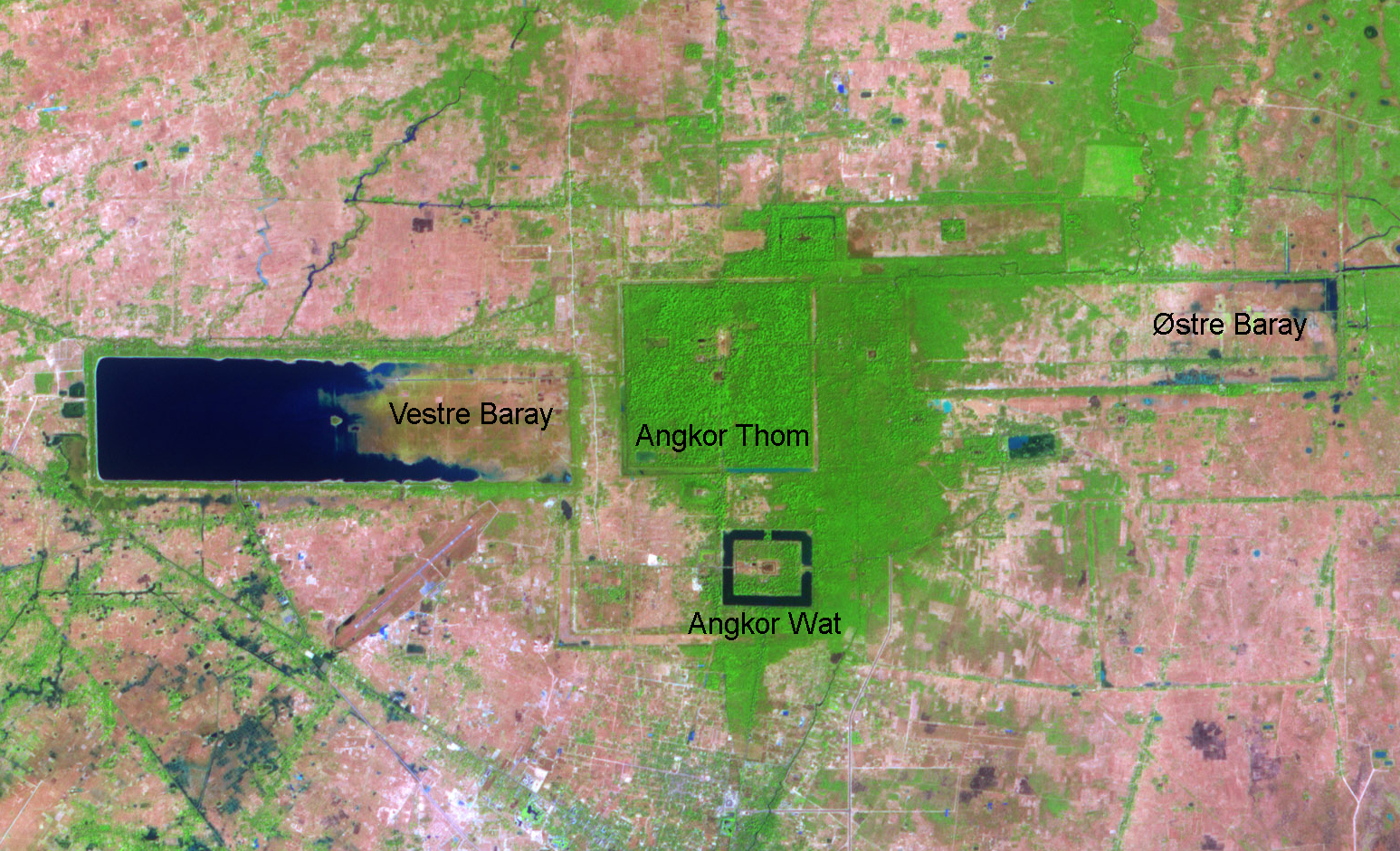 Angkor from a NASA satellite with Norwegian captions